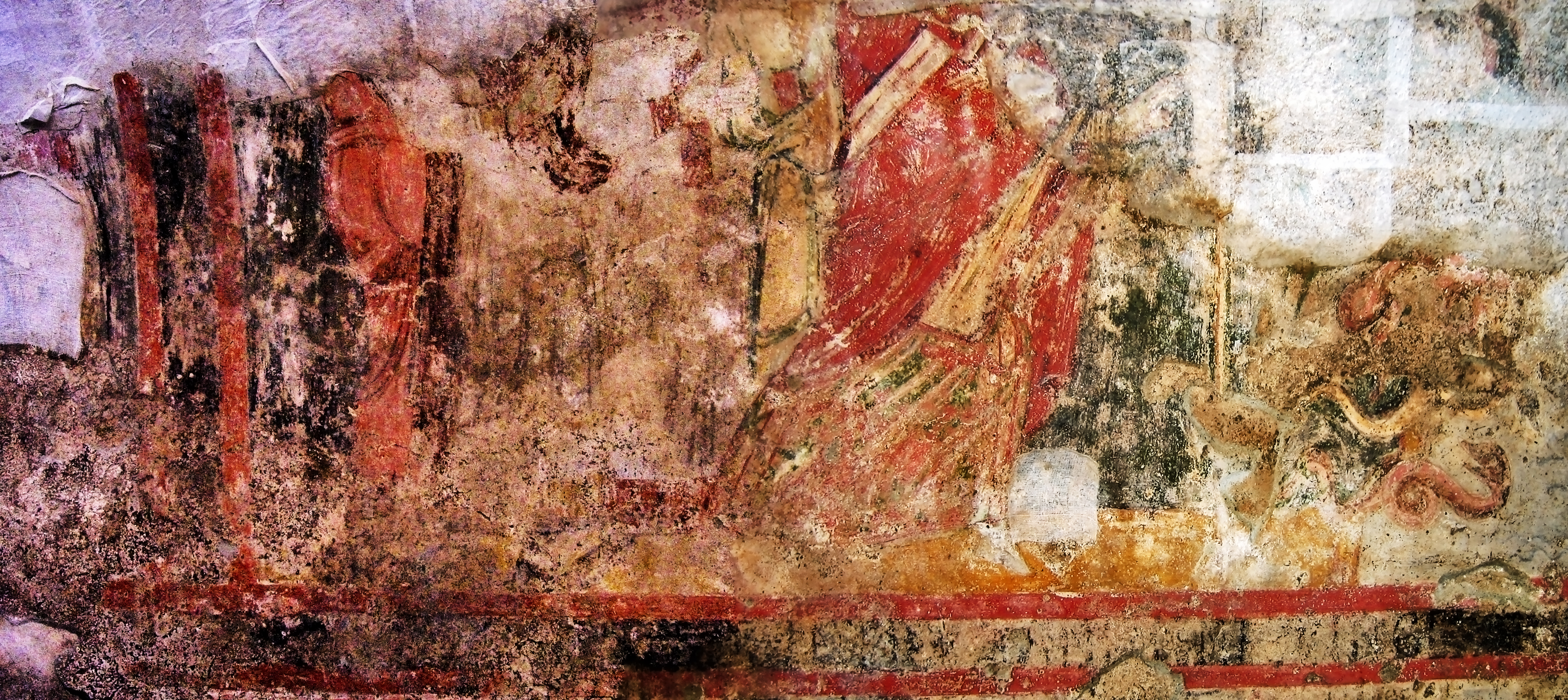 Crypt of San Marco dei Sabariani, Benevento, Italy. Fresco of the miraculous catch of fish (maybe)